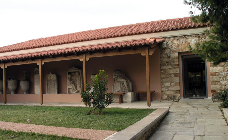 Ancient Greek artworks exhibited in the entrance cloister of the Kerameikos Archaeological Museum (Athens).